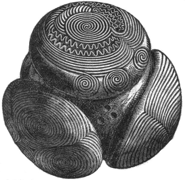 A Carved Stone Ball from Towie in Aberdeenshire. Sir John Evans. The Ancient Stone implements, Weapons & Ornaments of Great Britain. Longmans, Green & Co. 1897. P. 421.